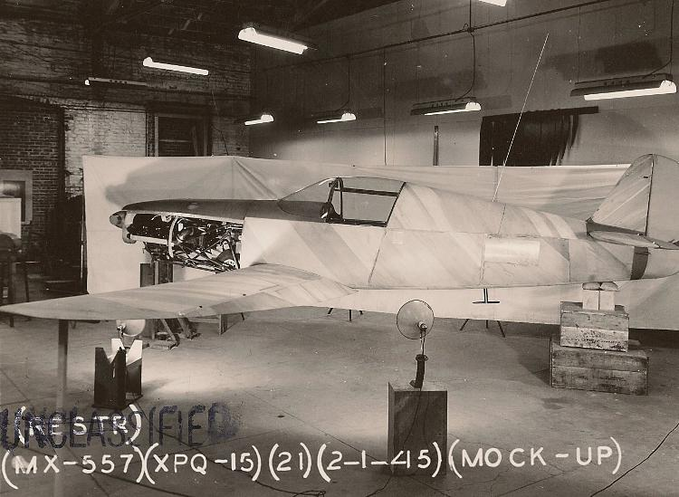 Mock-up of the Culver XPQ-15 target drone.